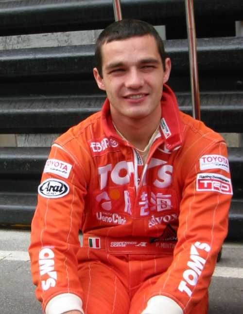 Paolo Montin at the 2002 Macau Grand Prix.